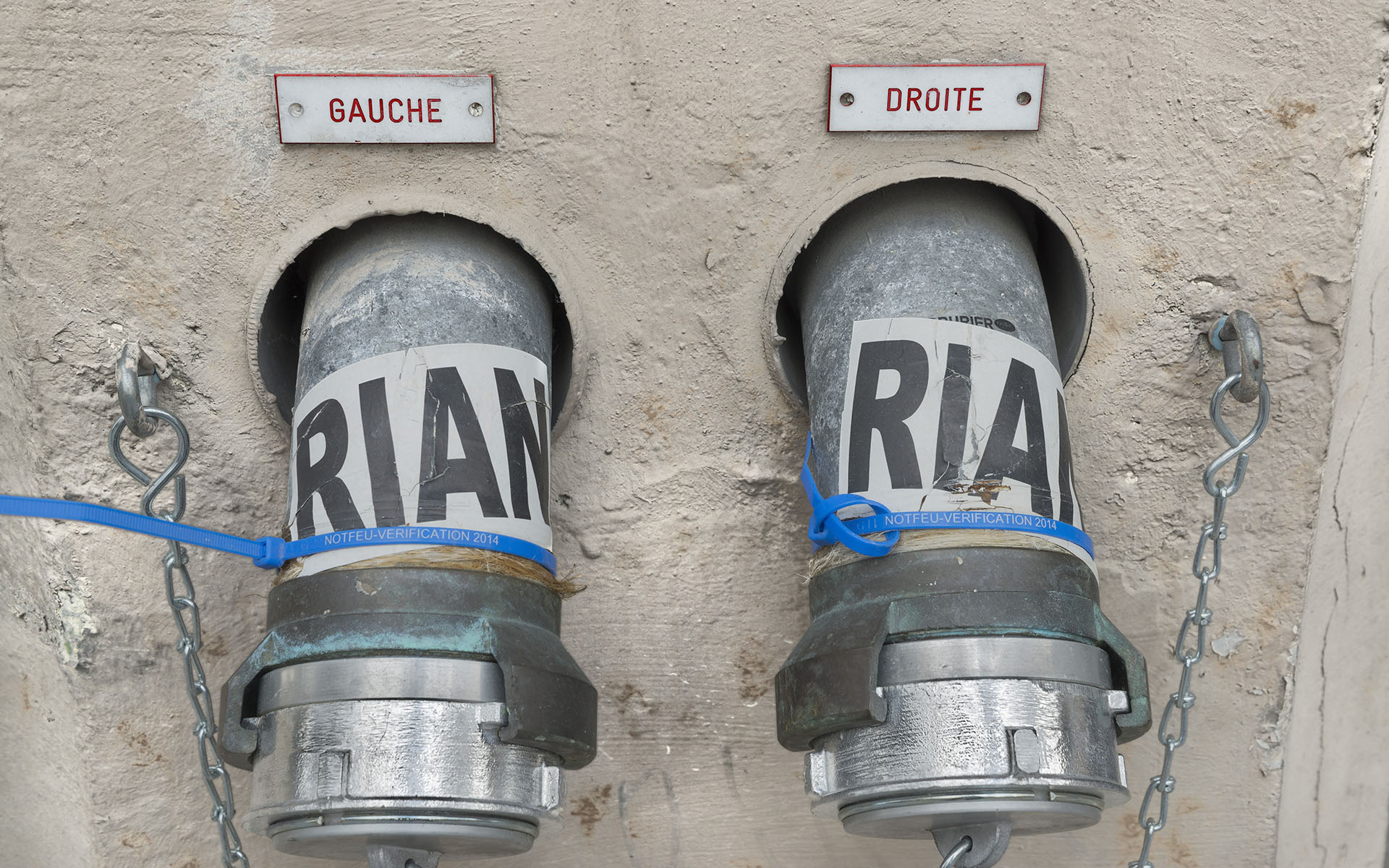 Des étiquettes au-dessus des colonnes sèche indiquant quelle est sur la gauche et quelle est sur la droite au 41, rue Tournefort.